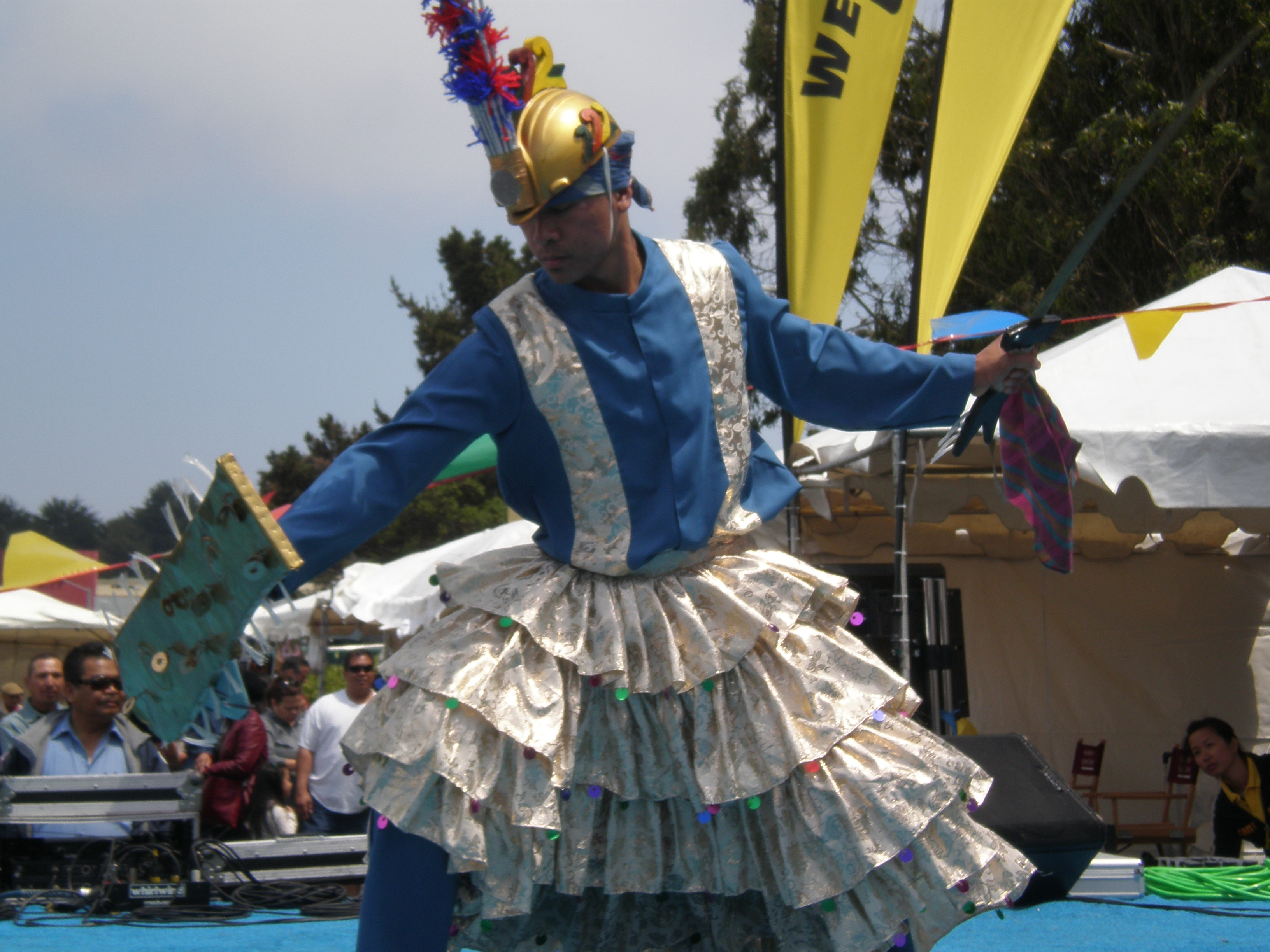 A member of the San Francisco based Parangal Dance Company performing the Sagayan dance of the Maguindanao and Maranao peoples of the Philippines as part of their Bangsamoro suite of dances at the 14th Annual Fil-Am Friendship Celebration at Serramonte Center in Daly City, California.